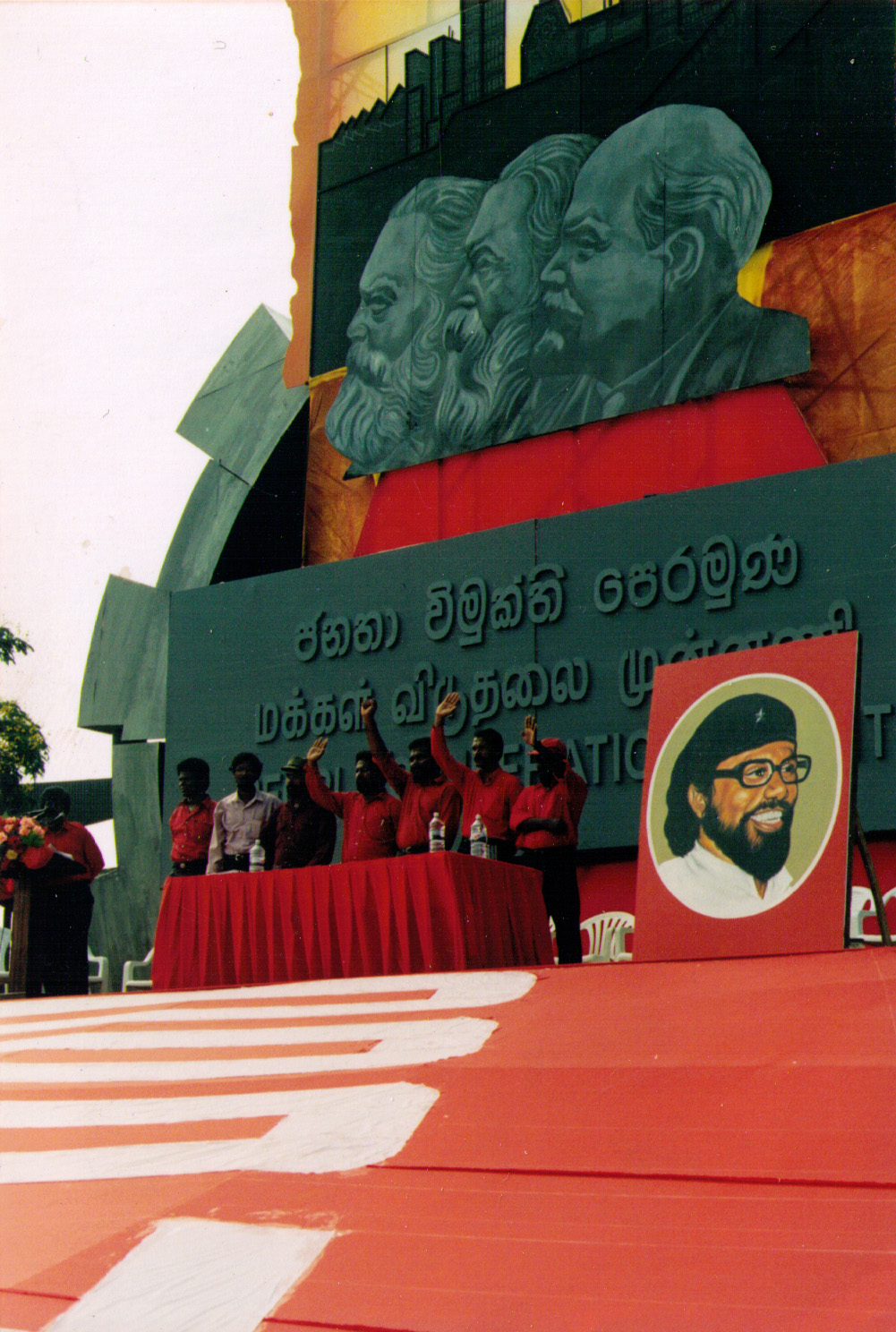 Janatha Vimukti Peramuna May Day Celebration, Colombo 1999.